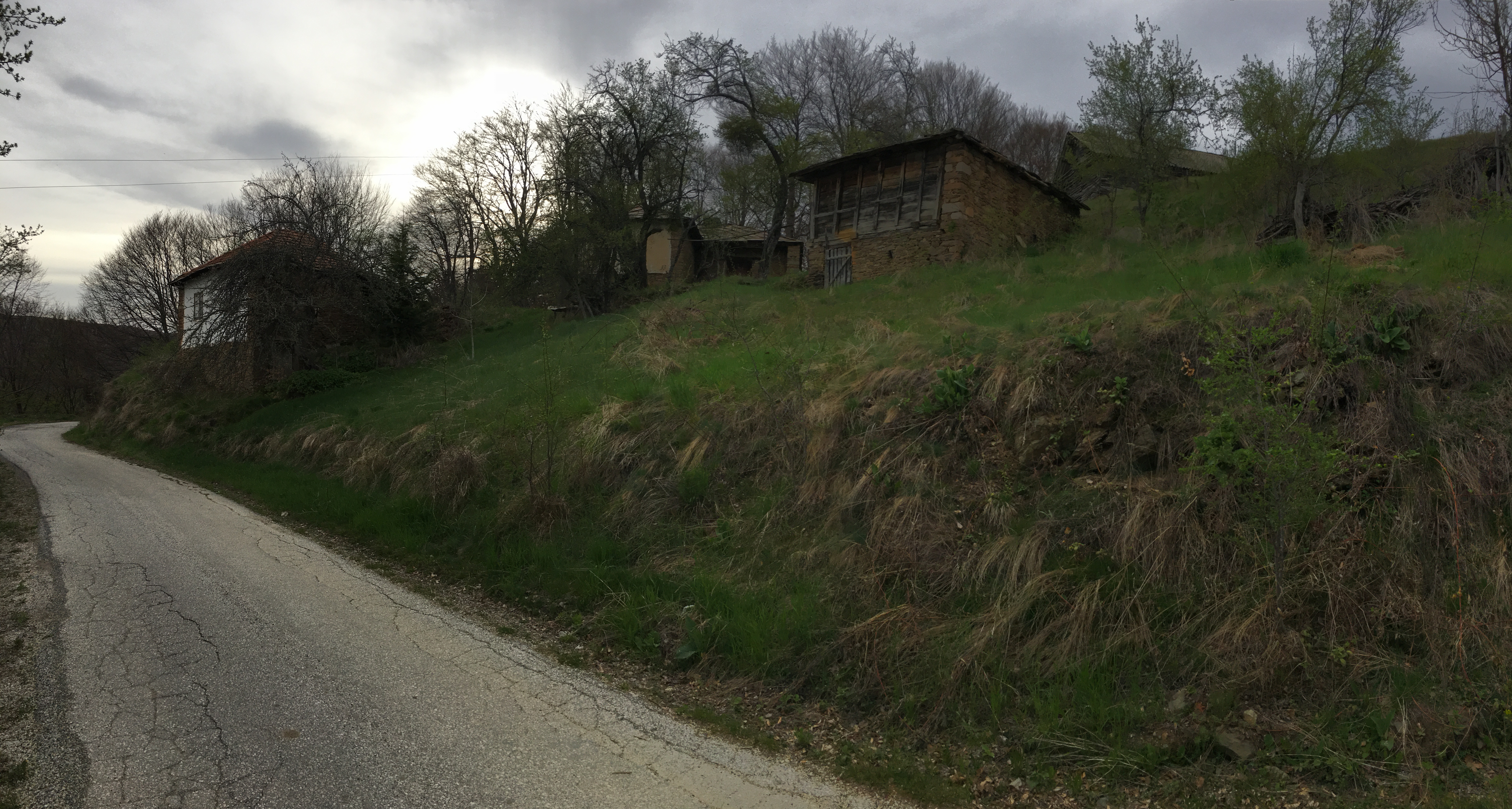 Houses in the Vučkovci mahala of the village of Meteževo